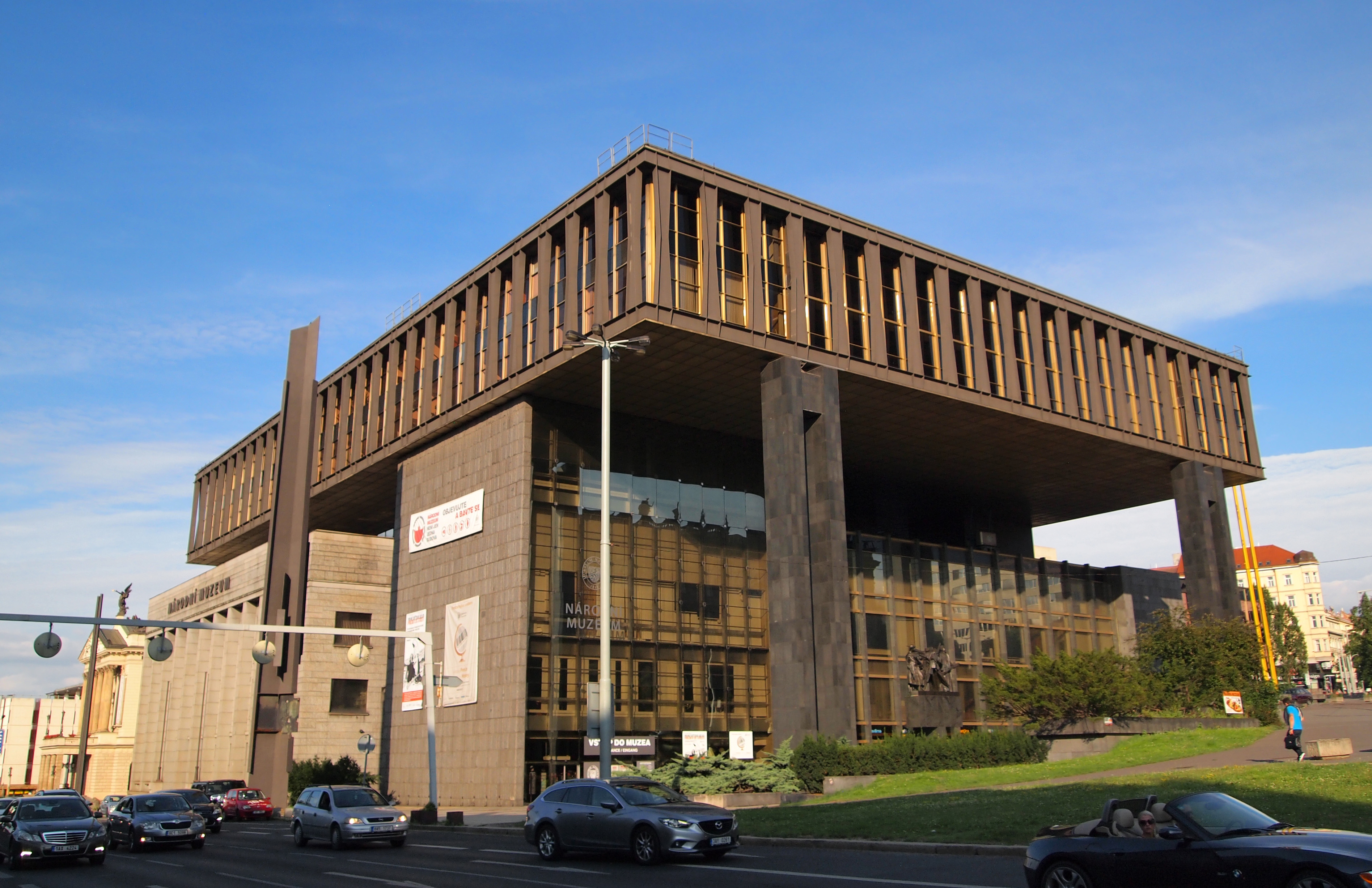 Knihovna Národního muzea in Prague. This photograph was taken with an Olympus E-PL1